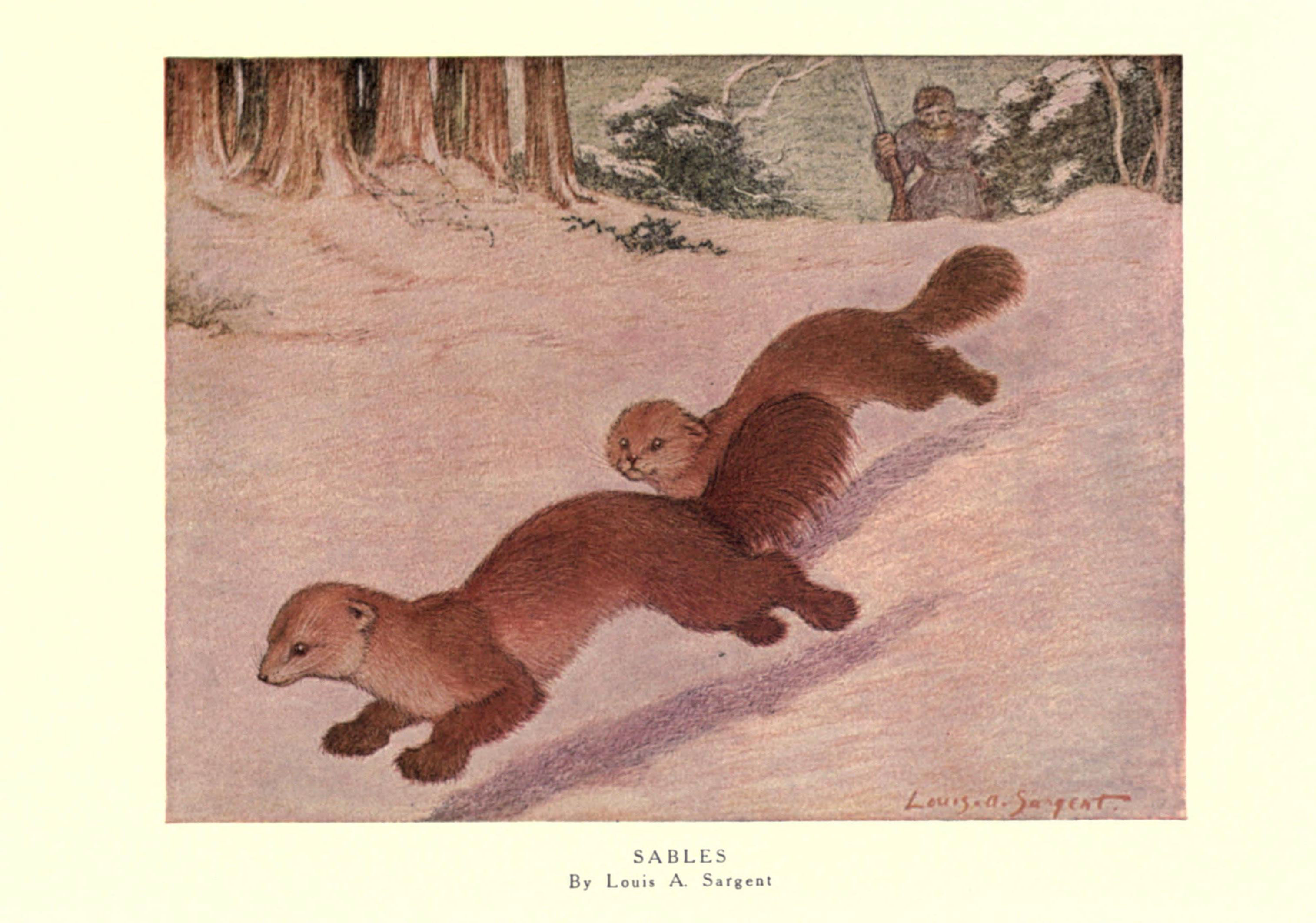 Sables by Louis A. Sargent